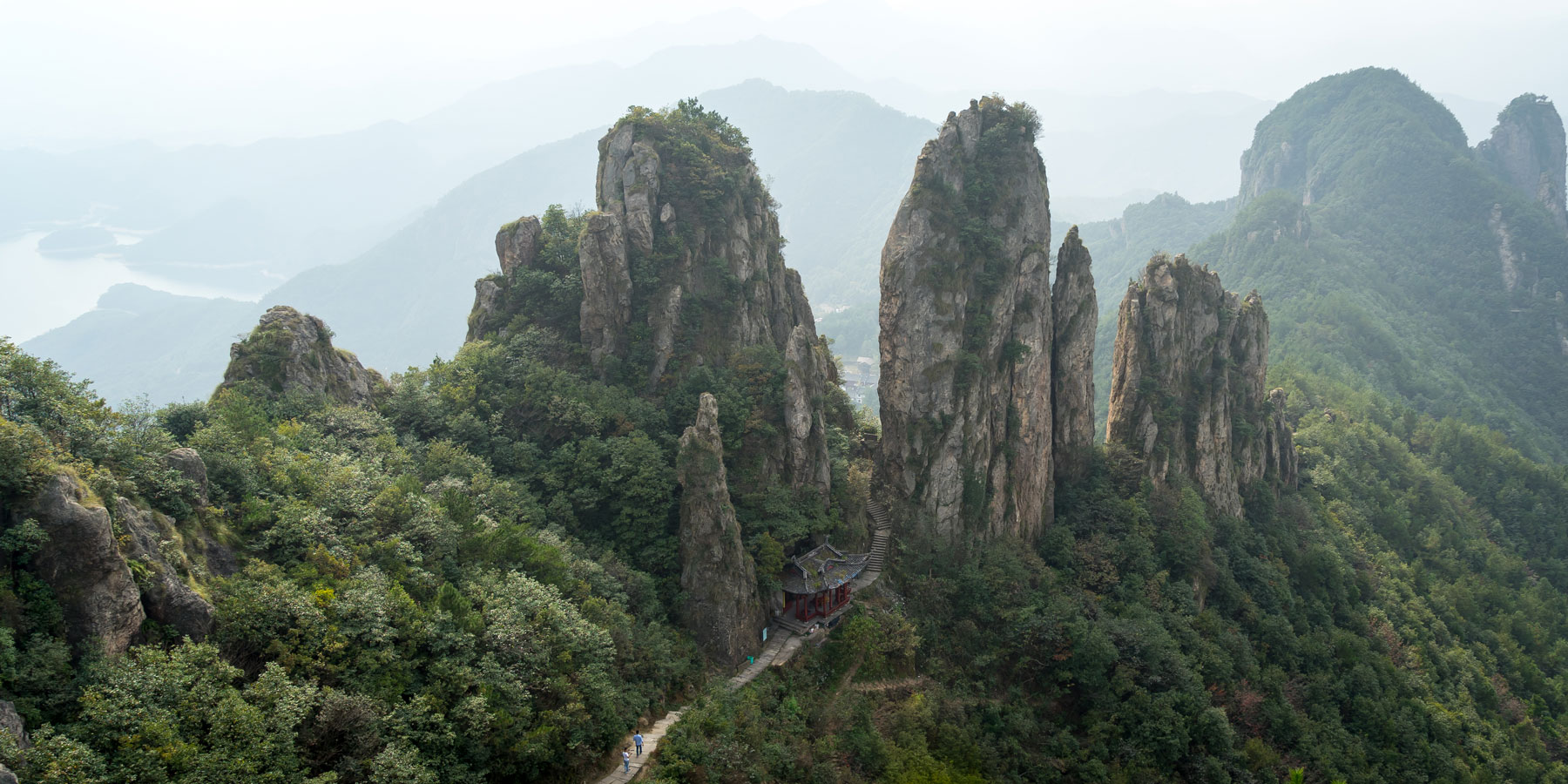 Xinhua Mountain